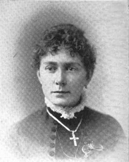 Helen Maud Merrill